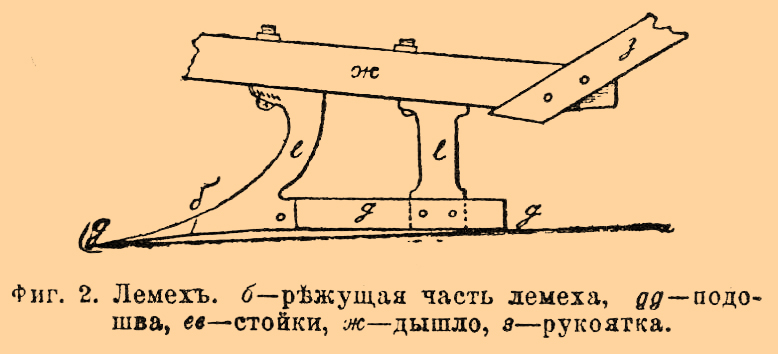 Illustration from Brockhaus and Efron Encyclopedic Dictionary (1890—1907)